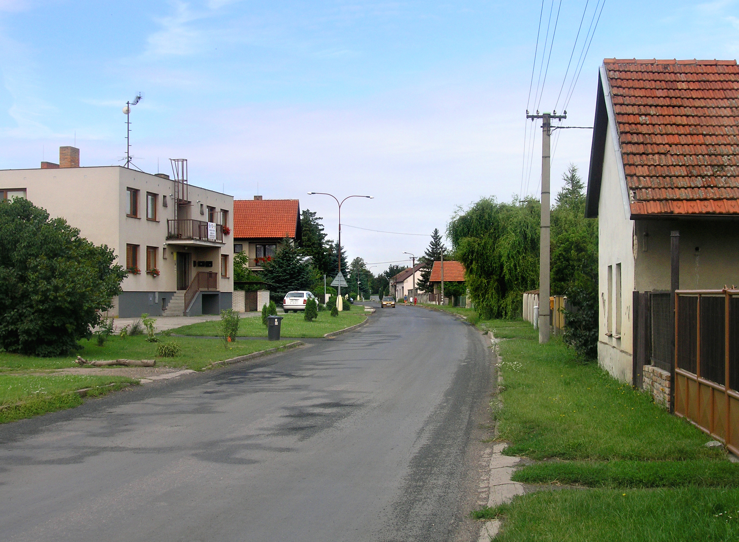 East part of Jestřabí Lhota, Czech Republic